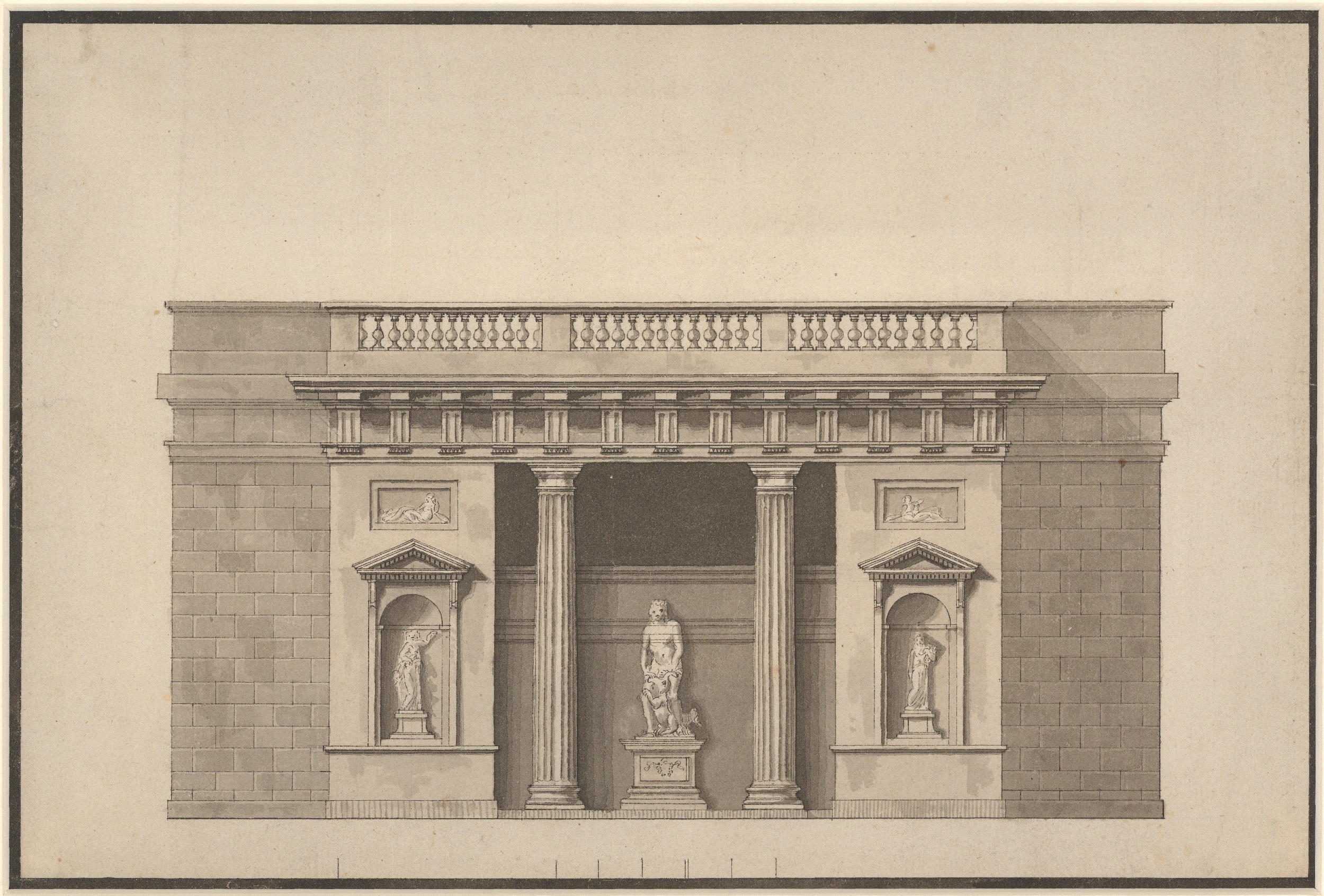 Rendering for the Gercules Pavilion in Kongens Have in Copenhagen, Denmark